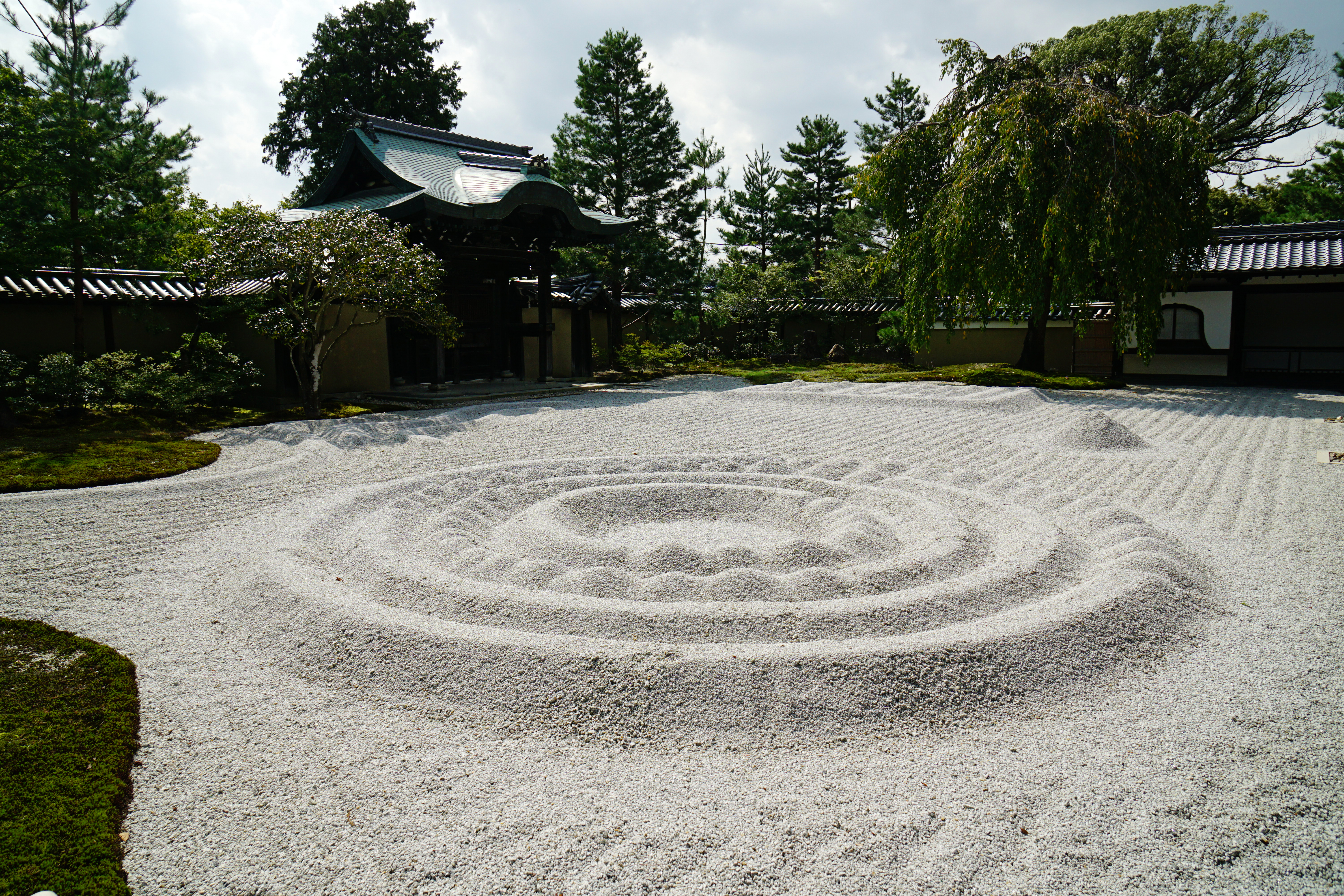 Kōdai-ji in Higashiyama-ku, Kyoto, Kyoto prefecture, Japan